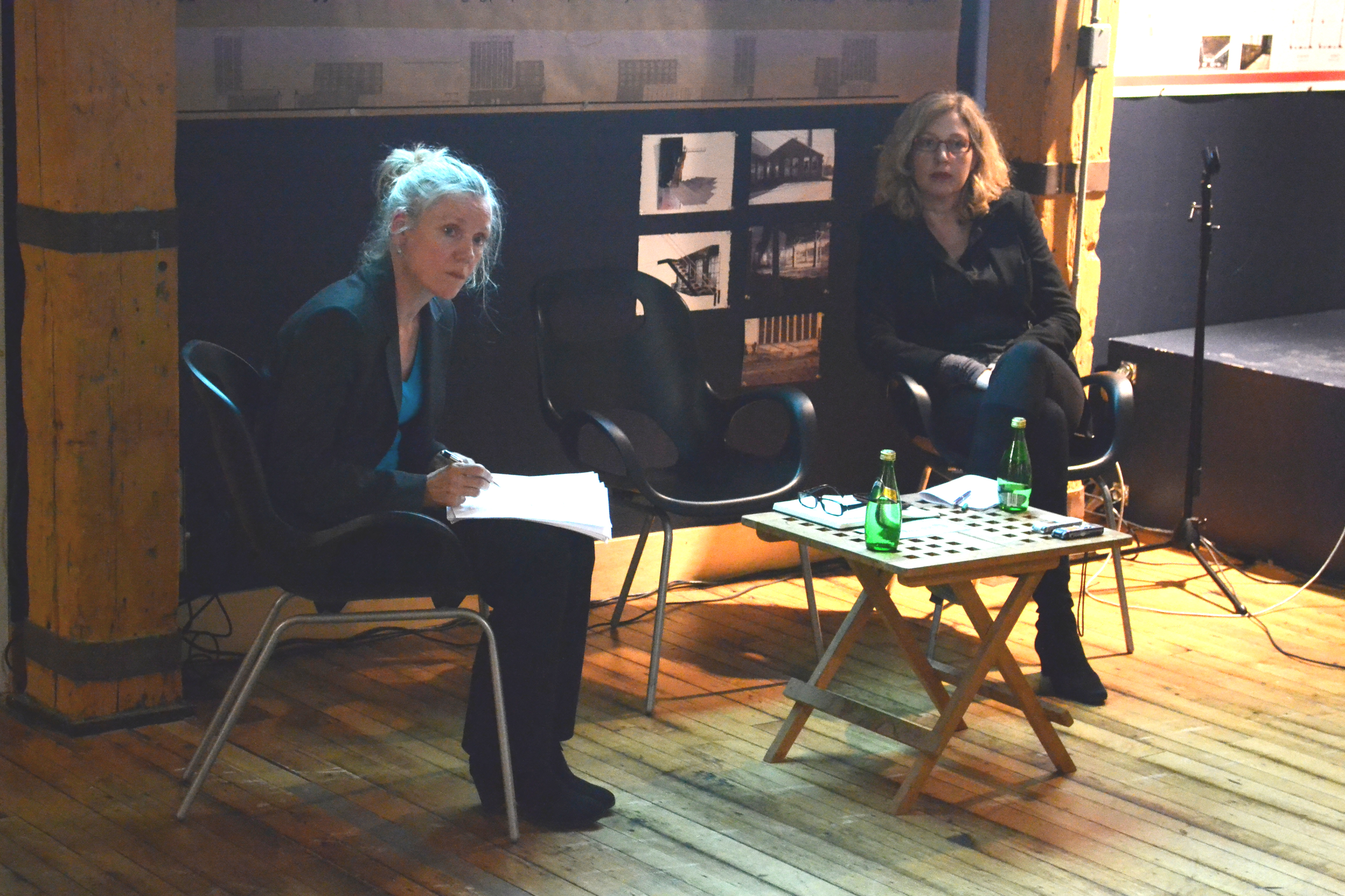 Intrinsic Logic – Global Times: New Global Cities (The Future of Cities series) - Goethe-Institut and the City Institute at York University joint event. Angela Stienen (left) and Martina Löw (right)